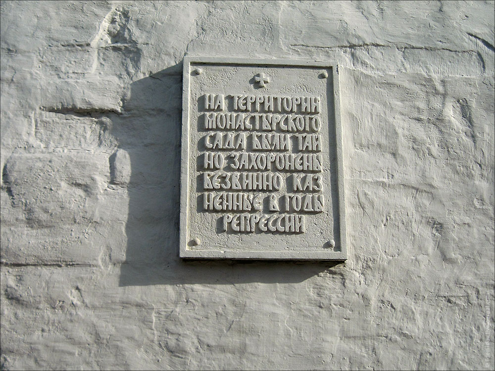 Plaque on monastery wall. Vladimir, Russia.